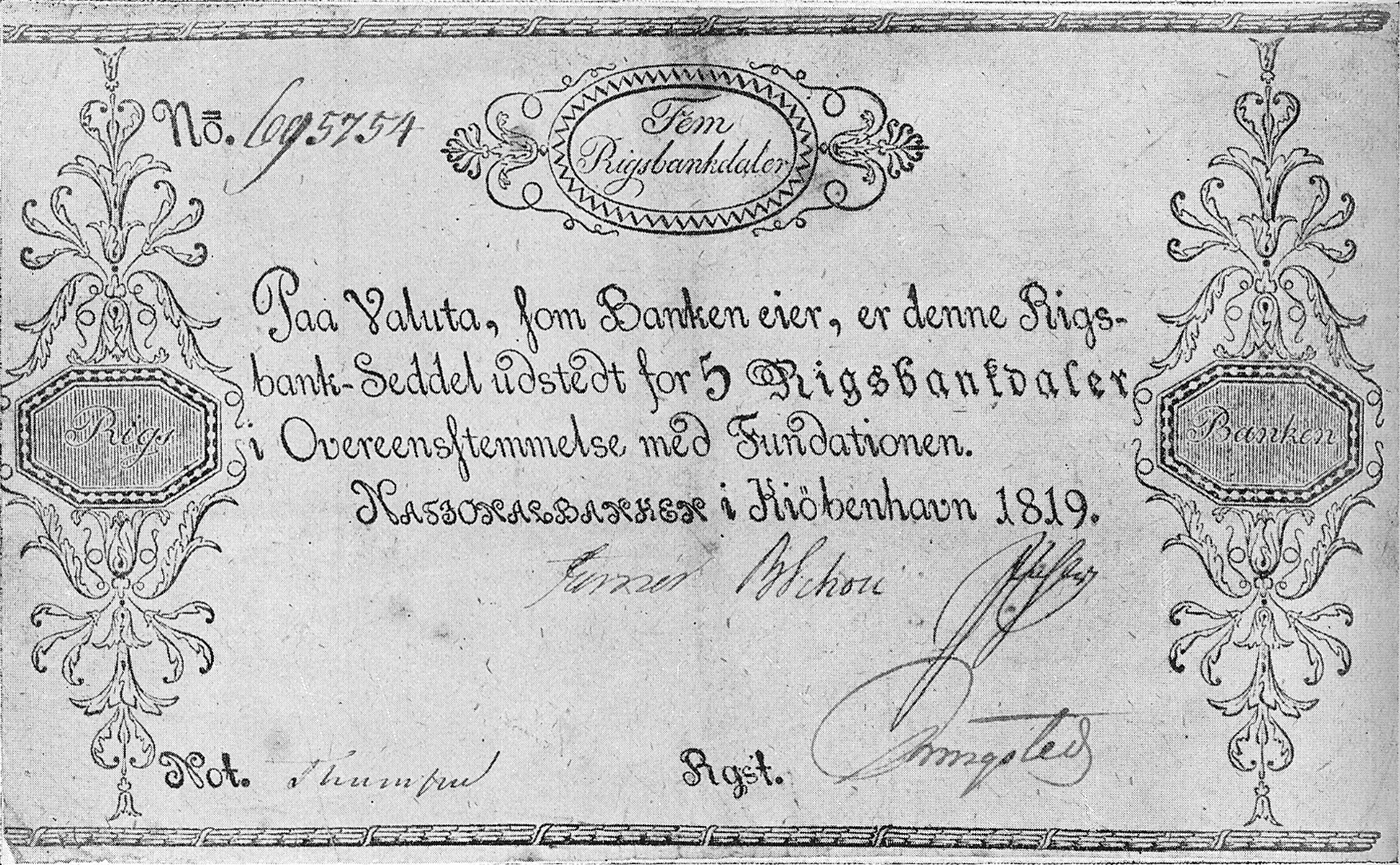 The oldest banknote issued by The Danish Nationalbank (Nationalbanken) from 1819.